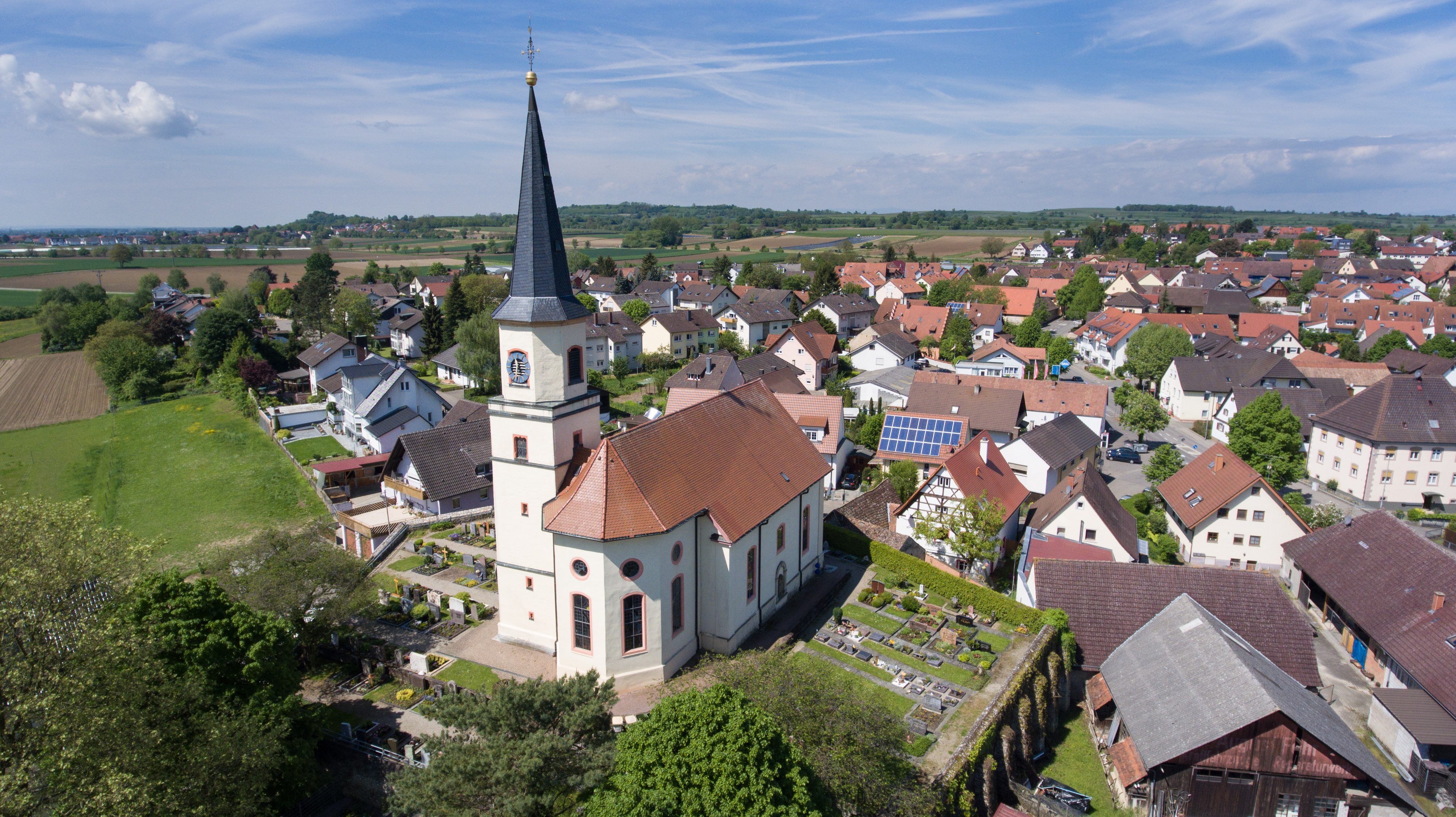 Protestant parish Freiburg-Tiengen